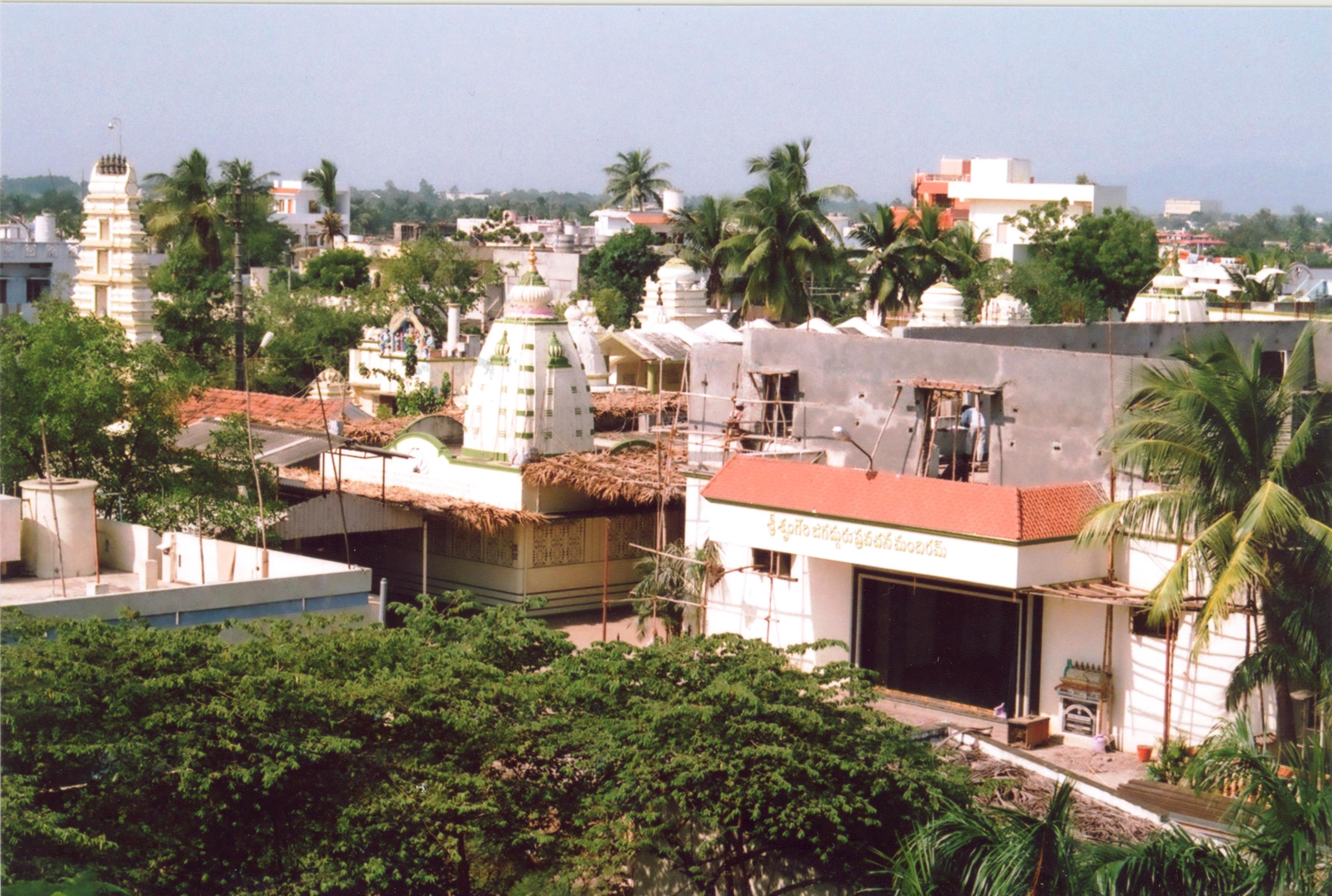 Sri Sringeri Muth Branch in Guntur